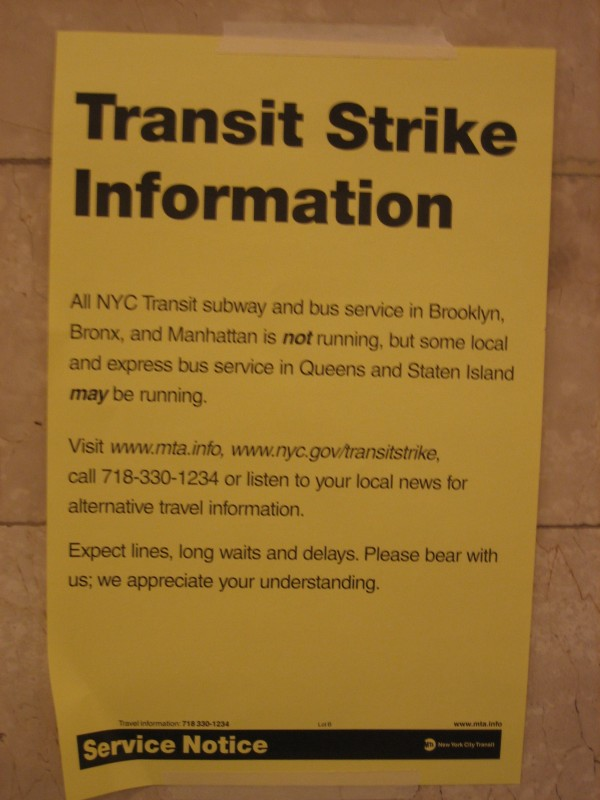 en:2005 New York City transit strike notice as posted at Grand Central Terminal by the Metropolitan Transportation Authority (New York).